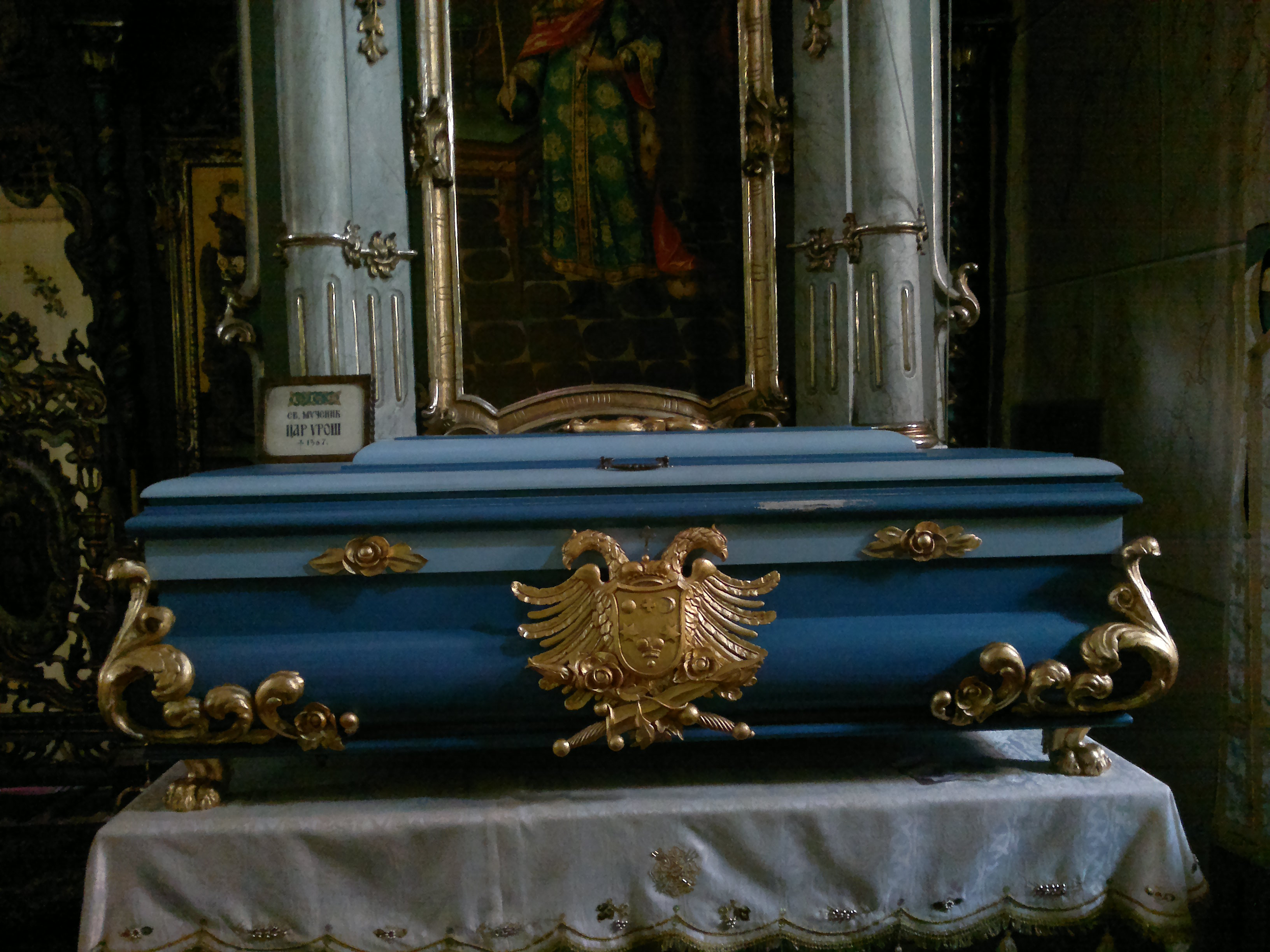 Relic case with saint bones of Stephen Uroš V of Serbia